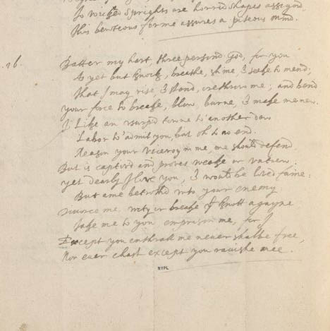 Handwritten manuscript of Sonnet XIV "Batter my heart, three person'd God" from the Holy Sonnets by seventeenth-century English metaphysical poet John Donne (1572-1631). Detail from the "Westmoreland manuscript of the poems", page 74 of 107. Henry W. and Albert A. Berg Collection of English and American Literature, New York Public Library [no shelf mark]; DV siglum: NY3 c. 1620 From the Westmoreland manuscript in the New York Public Library's Digital Gallery which provides free and open access to over 800,000 images digitized from primary sources and printed rarities in the vast collections of The New York Public Library, including drawings, illuminated manuscripts, historical maps, vintage posters, rare prints and photographs, illustrated books, printed ephemera, and more. This is a detail cropped from a full-page two-dimensional scan of a historic manuscript and is ineligible for copyright protection under U.S. law, pursuant to Bridgeman Art Library v. Corel Corp., 36 F. Supp. 2d 191 (S.D.N.Y. 1999).